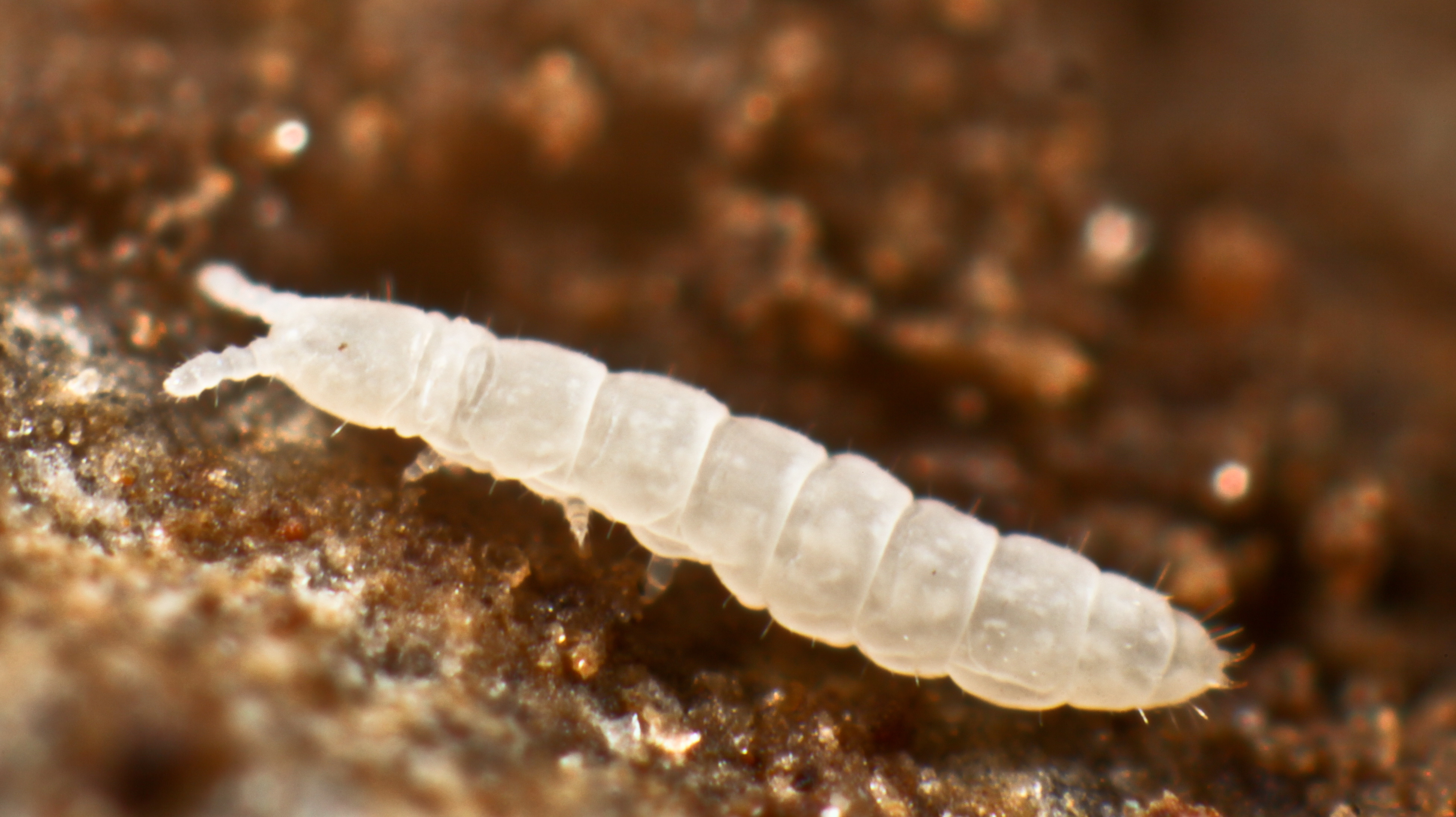 Metaphorura affinis from Polden Hills, Street, Somerset, England, United Kingdom. Original description on Flickr: Yes, yet another white, blind springtail. I'm a little more definite about the ID of this one than the last time! I found two of them, both with the little projection underneath the anal spines, up on Polden ridge again, where I found Neonaphorura duboscqi.